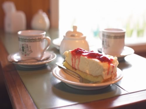 Chilean Kuchen.